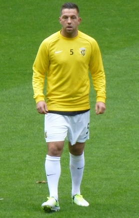 Theo Janssen in GelreDome prior to the football match Vitesse vs. FC Twente